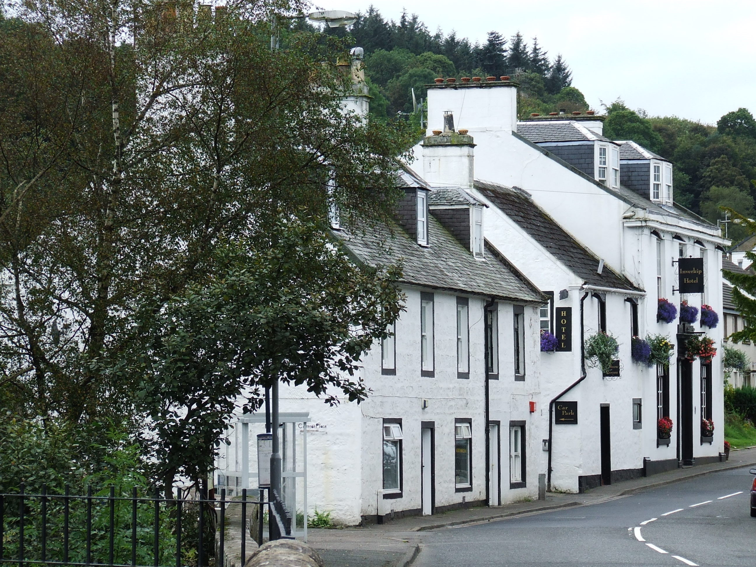 Inverkip Hotel On Main Street. The hotel is the building on the right with the window boxes. Commoncraig Hill can be seen on the horizon.